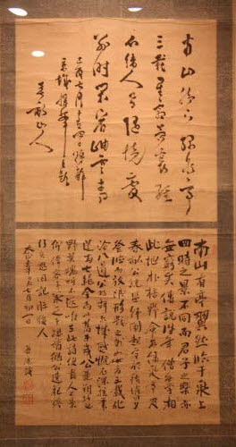 Letter of Ito Hirobumi, Japenise Prime Minister